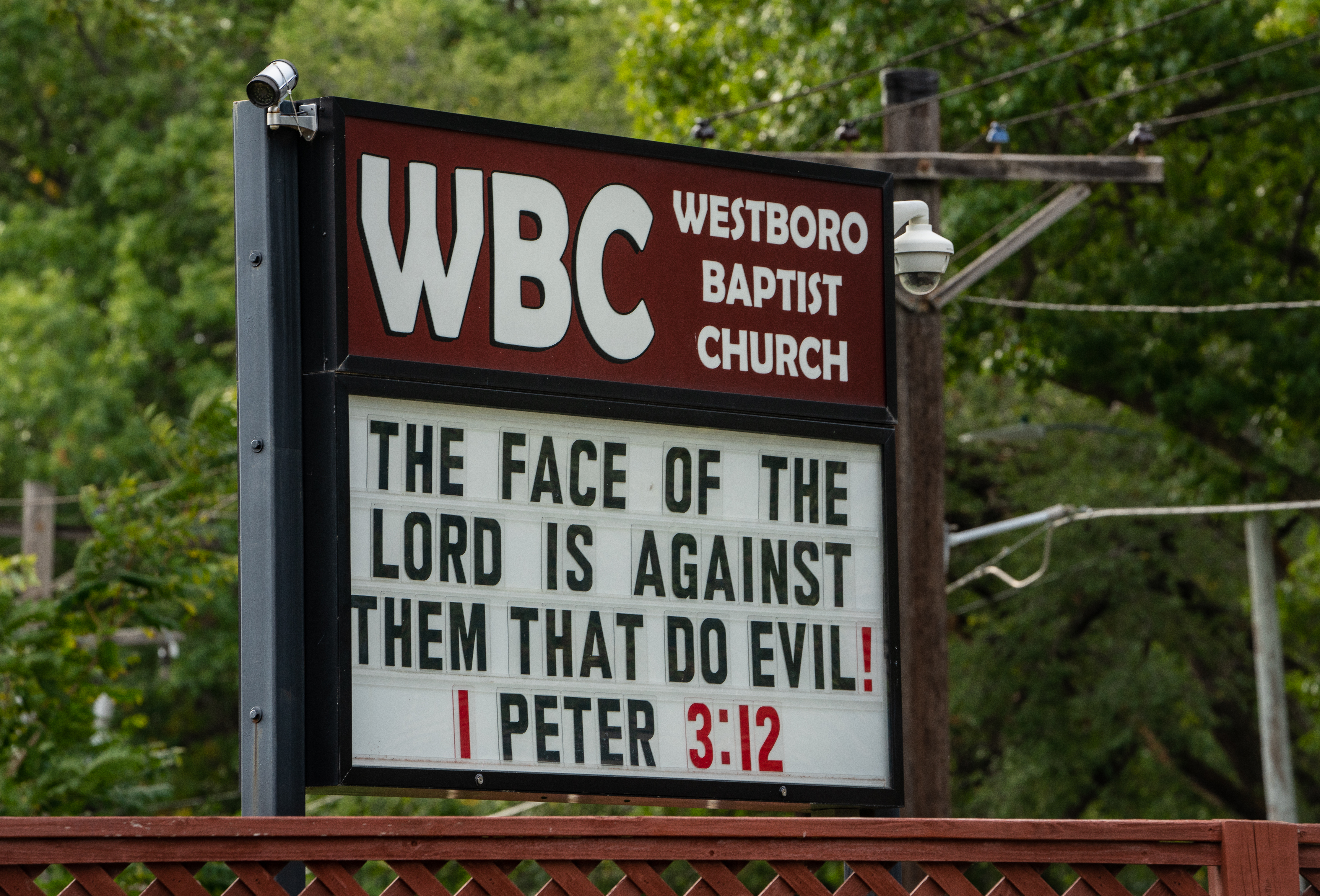 A sign at the Westboro Baptist Church in Topeka, Kansas has two surveillance cameras on it, and reads: "The face of the lord is against them that do evil! 1 Peter 3:12" -- (c) 2018 Tony Webster +1 (202) 930-9200